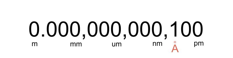 Angstrom Unit in a Panoramic View